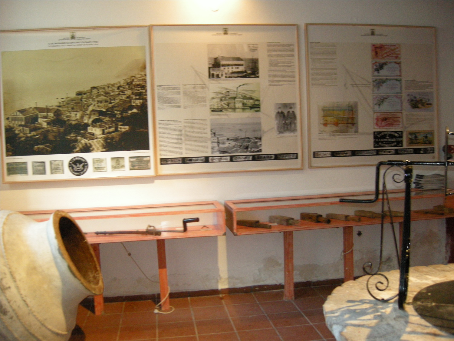 Veniamin Lesvios club building